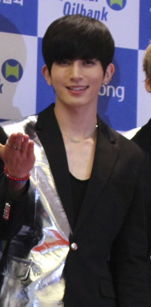 Group photo of U-Kiss taken at the press conference for Dream Concert 2013. Taken and shared by K-Soul Magazine for the U-Kiss information page.